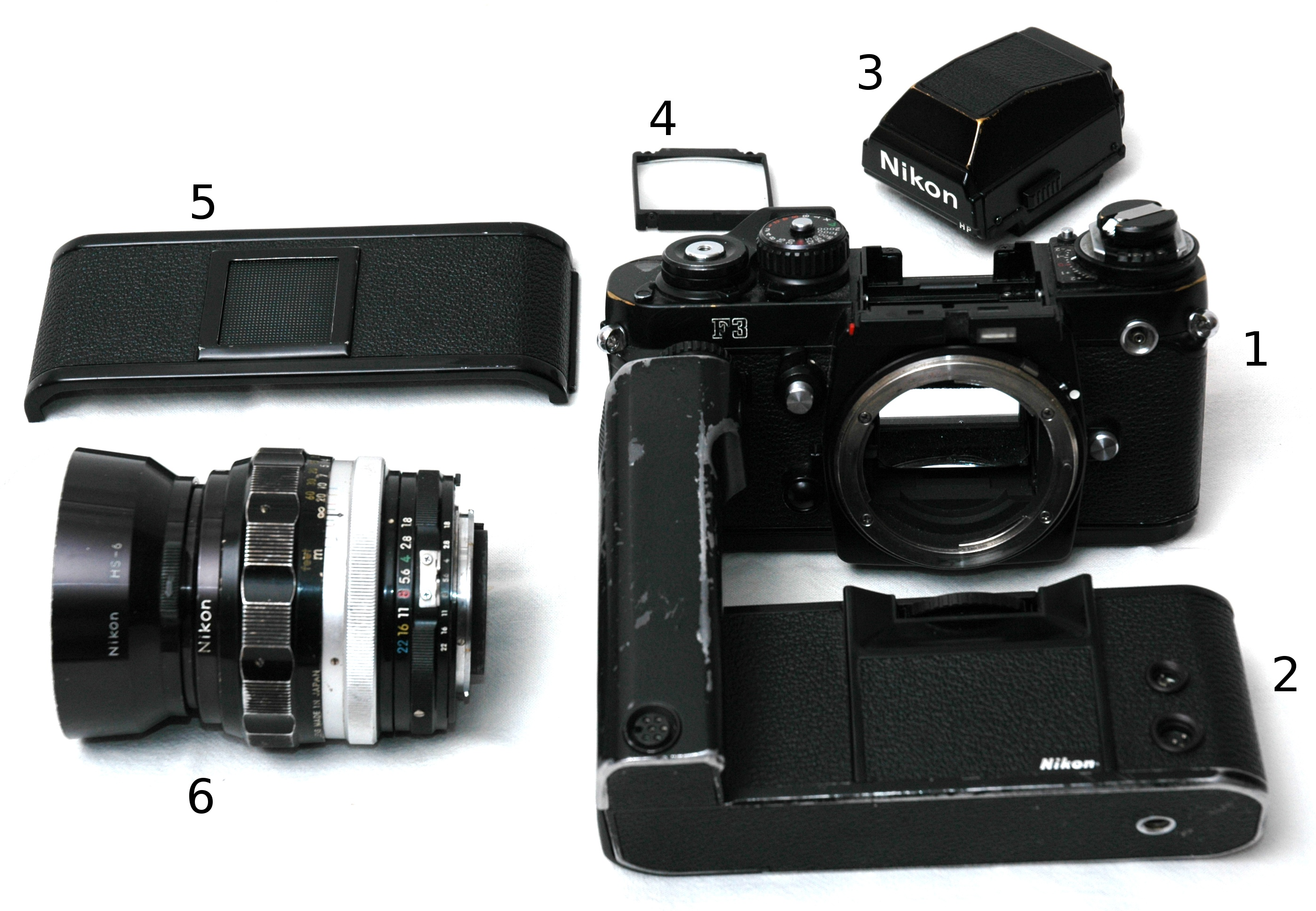 System camera (Nikon F3) in it's pieces.